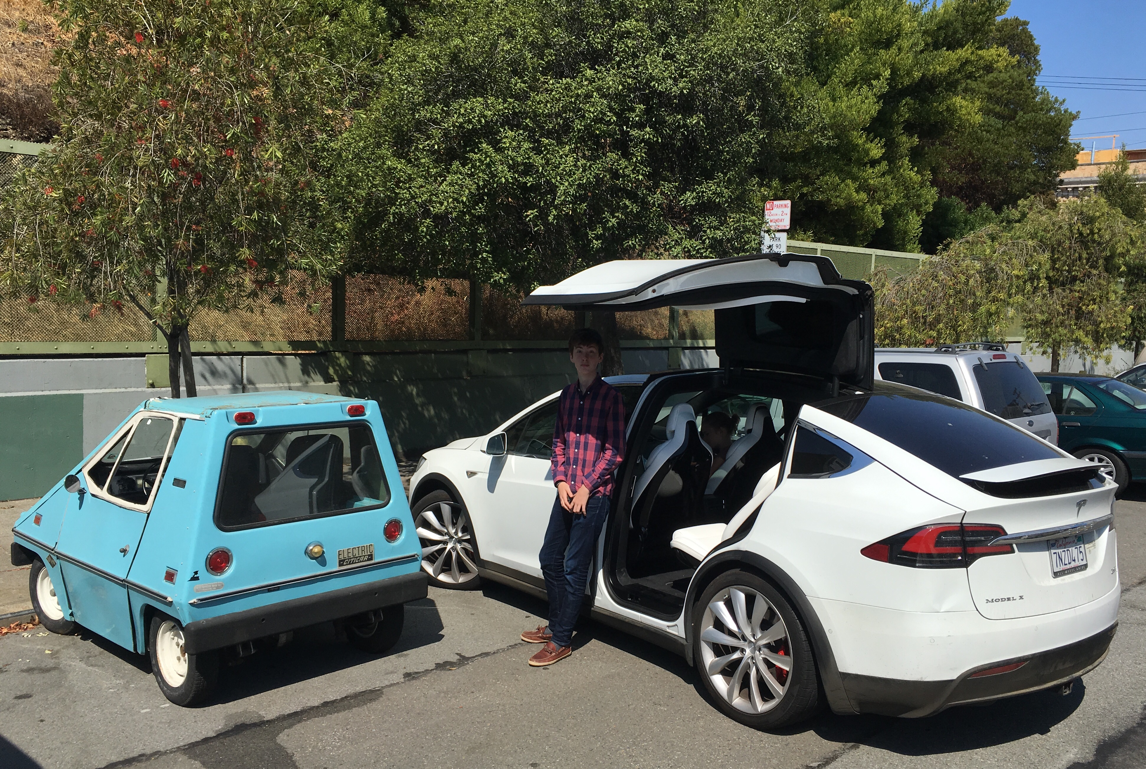 An all-electric Sebring CitiCar (left) and a modern Tesla Model X parked at loading cargo area in San Francisco, CA.